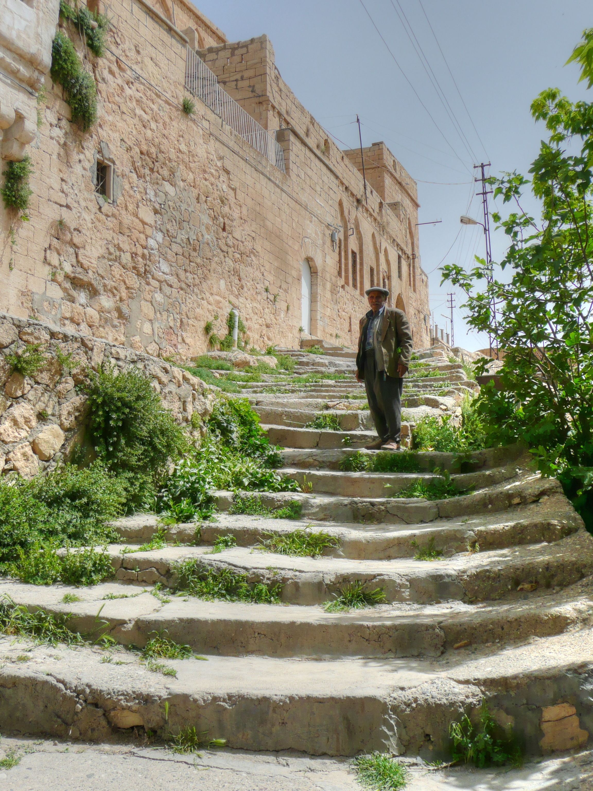 Photographs from Mardin, Turkey